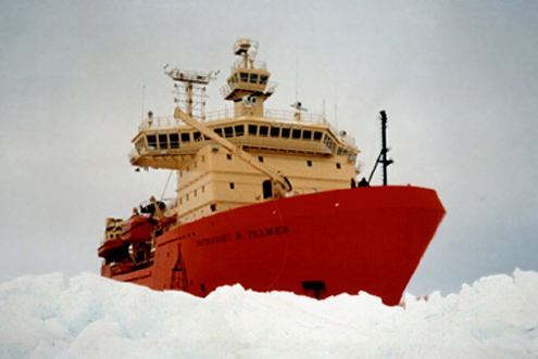 The icebreaker Nathaniel B Parker